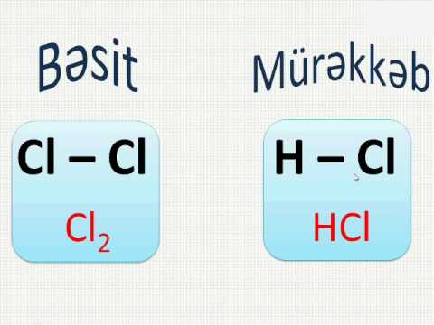 Birleshme